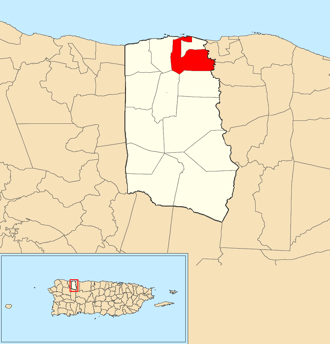 Puente, Camuy, Puerto Rico locator map